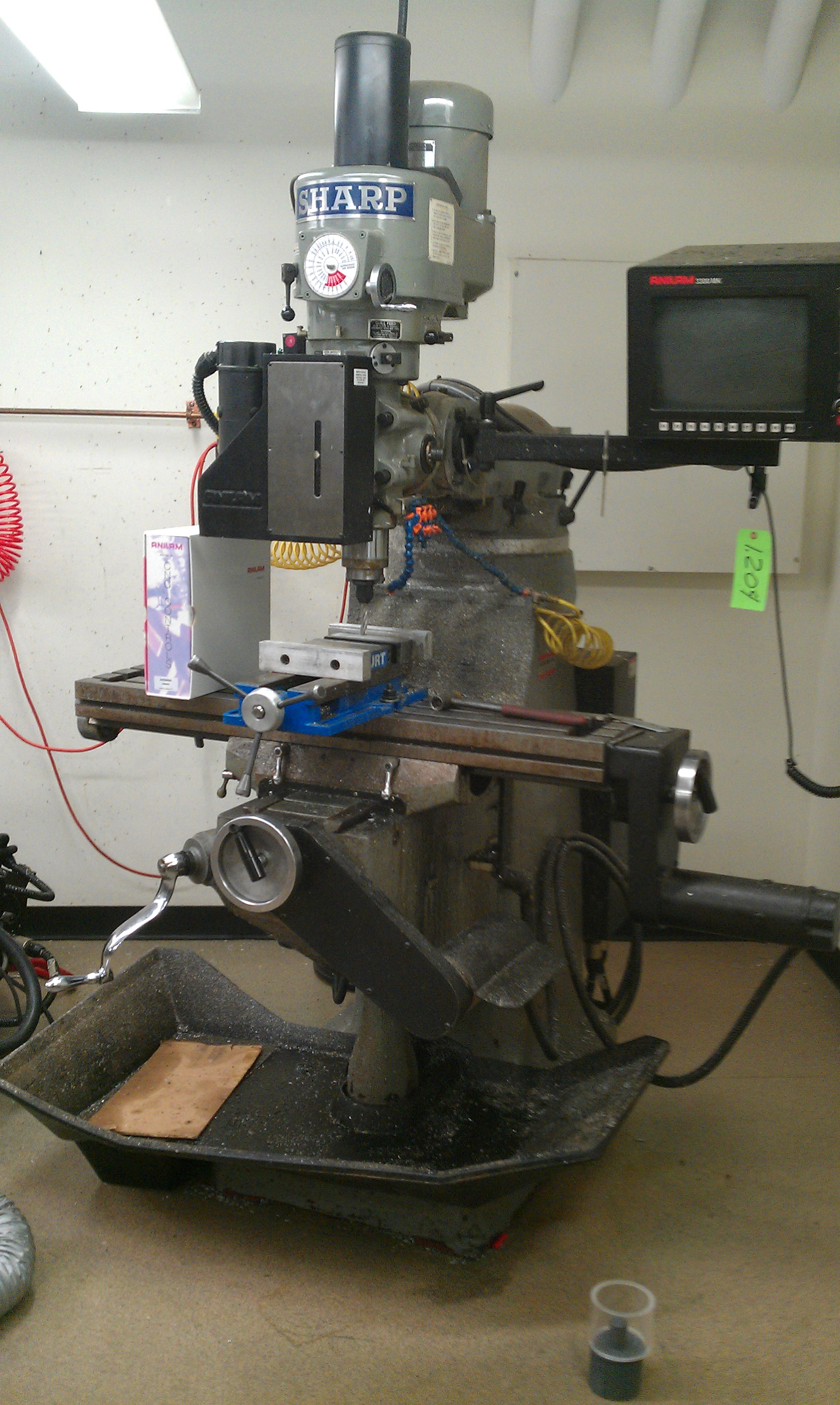 A Bridgeport variant that has been retrofitted with motors and controls to function as a CNC machine. Sharp Machinery brand mill and Anilam brand CNC controllers.